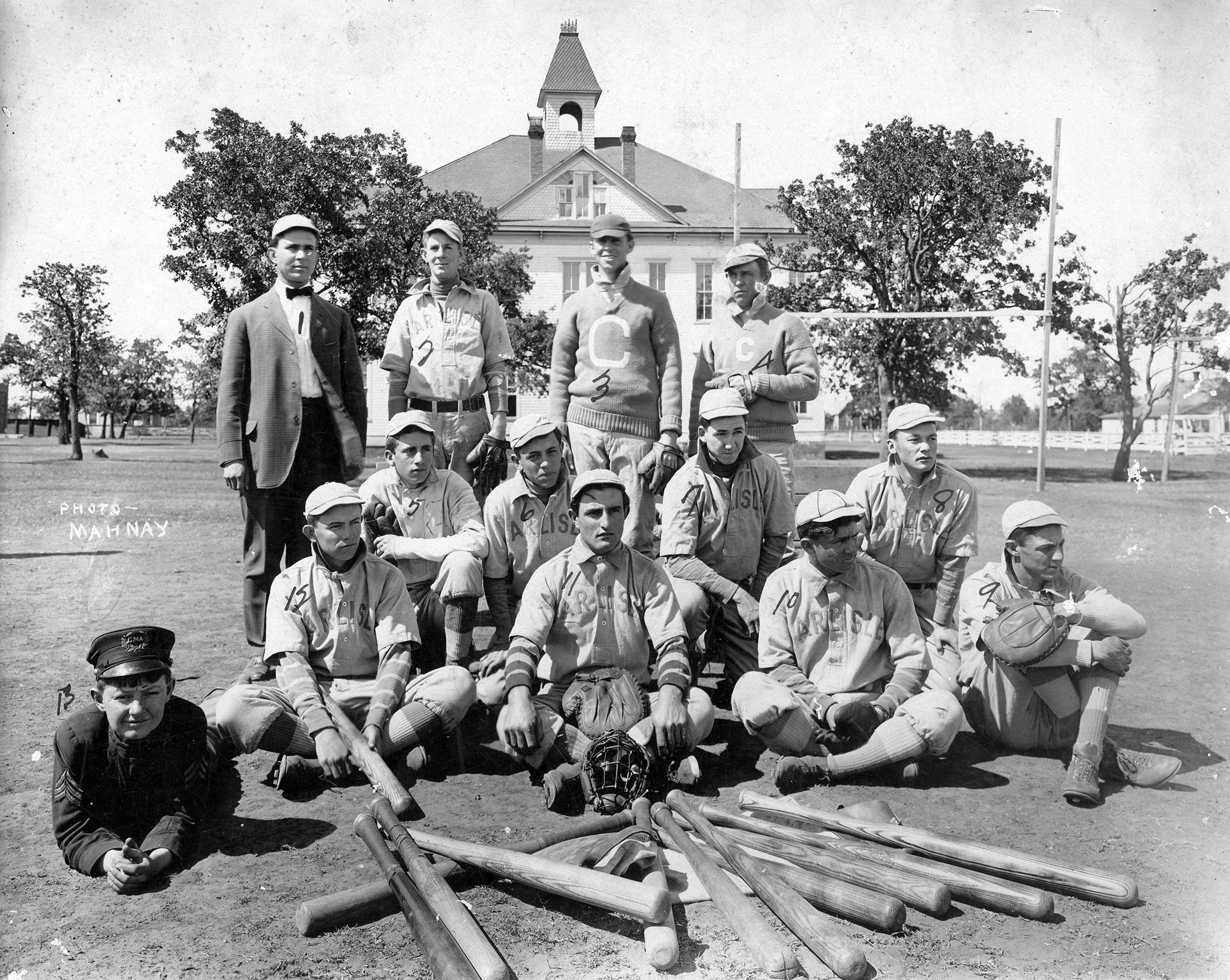 Carlisle Military Academy baseball team in uniform